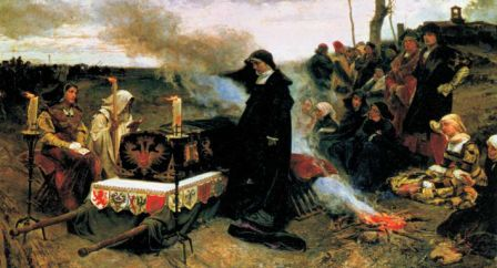 Juana the Mad Holding Vigil over the Coffin of Her Late Husband, Philip the Handsome